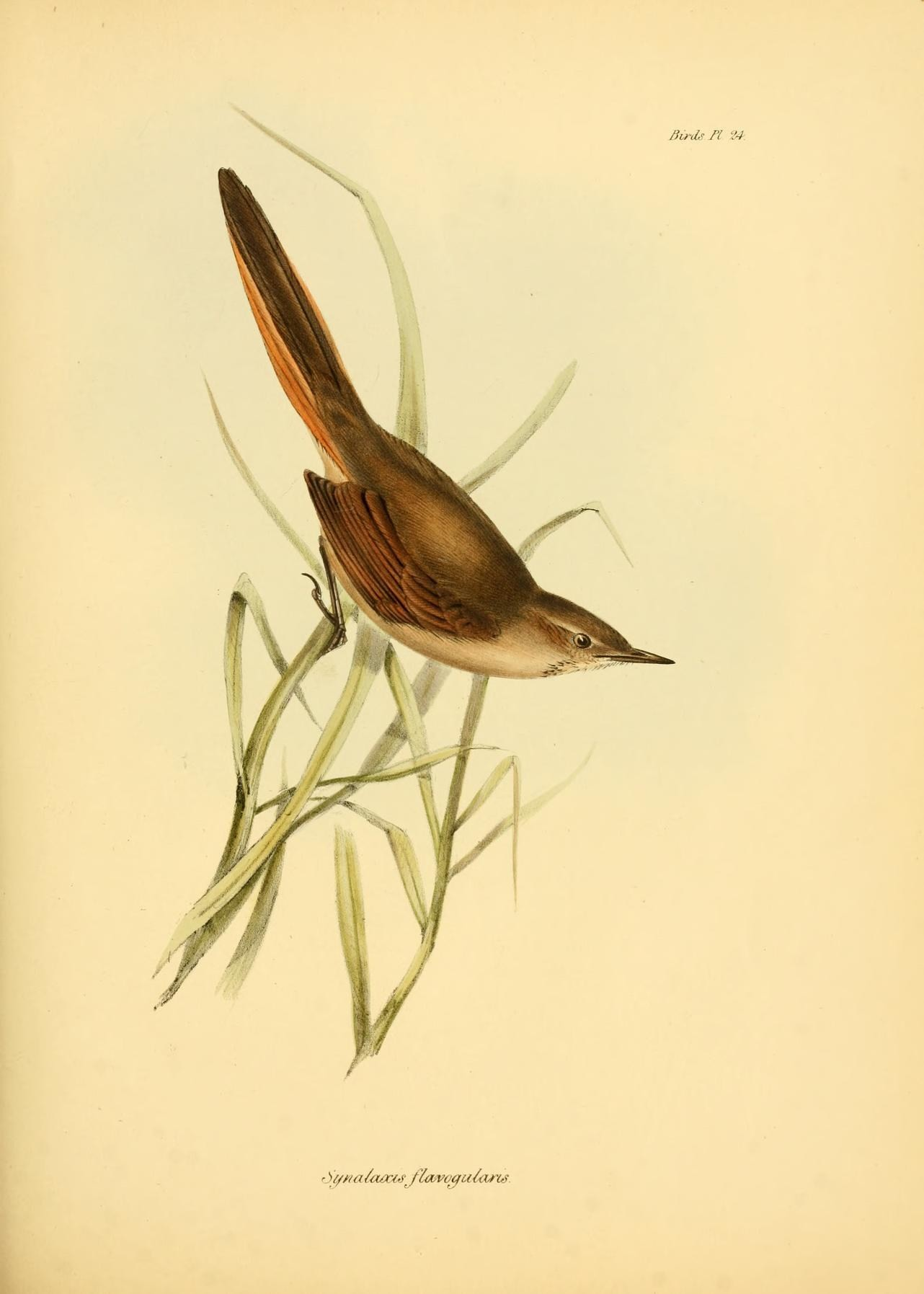 Asthenes pyrrholeuca flavogularis, formerly (Synallaxis flavogularis) The zoology of the voyage of H.M.S. Beagle .... London,Smith, Elder & Co.,1838-.